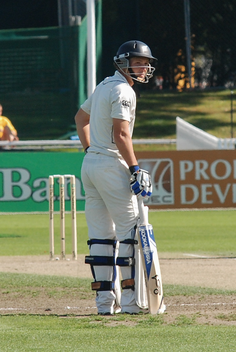 BJ Watling is seen as the non-striker watching the bowler. This photo was taken during the 2nd day of the 2nd test of NZ vs AUS in Hamilton. Watling went on to score 46 runs.